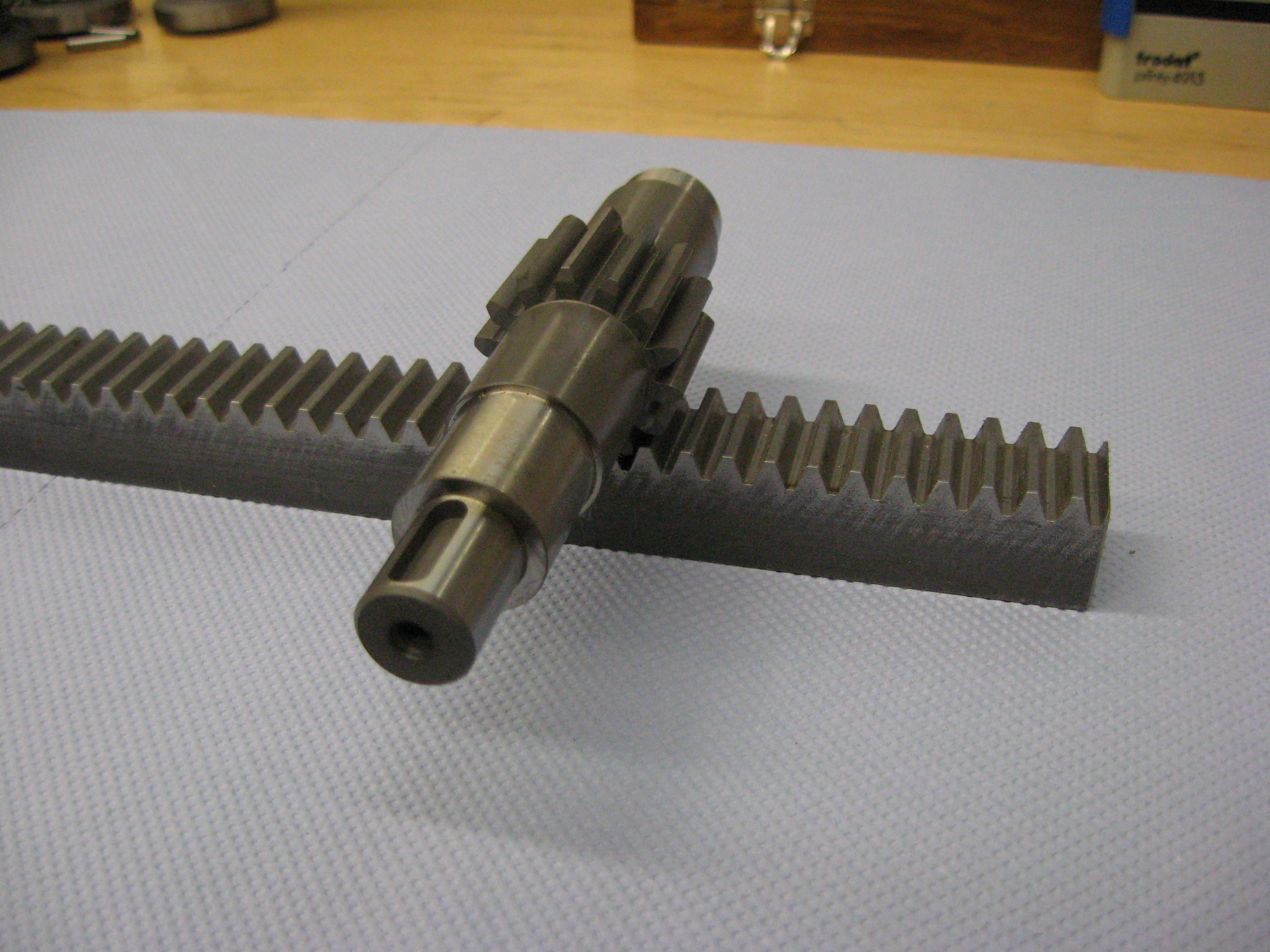 Pignon with toothed rack